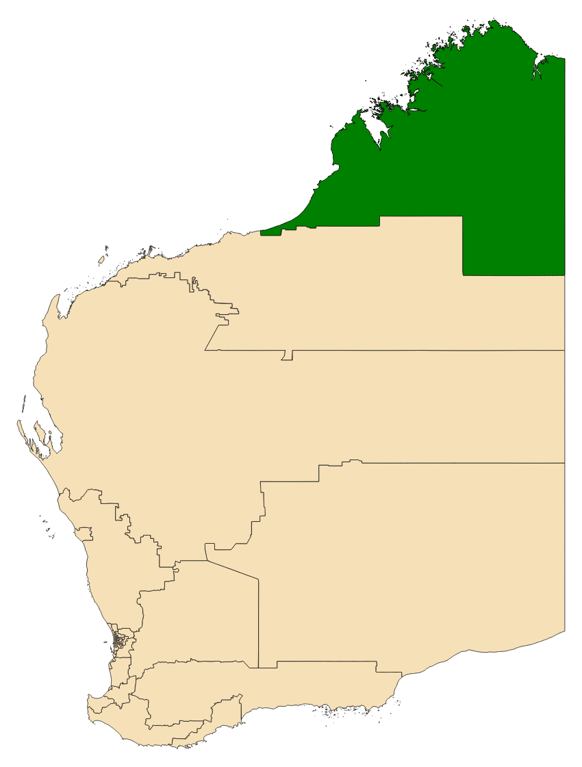 Location of the electoral district of Kimberley in Western Australia as of the 2017 WA state election.